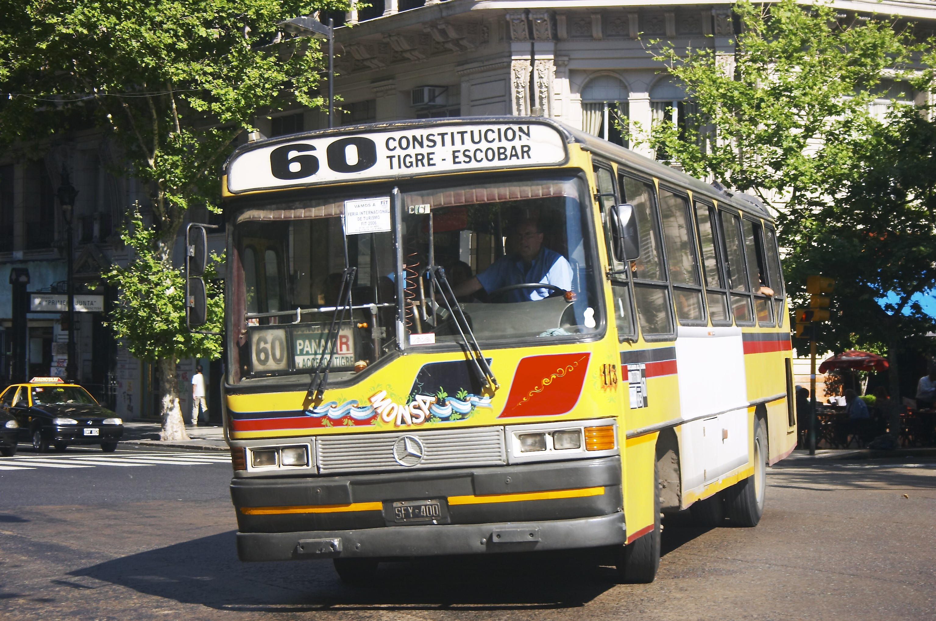 Bus (reg. SFY 400, #113) with Mercedes-Benz chassis in Buenos Aires, Argentina. Colectivo, line 60, M.O.N.S.A. (NU.D.O. S.A. (Nuevos Rumbos S.A. - D.O.T.A.)) operator.